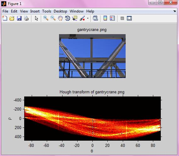 Hough transform with Matlab.